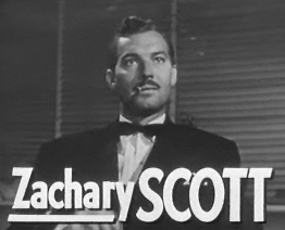 Cropped screenshot of Zachary Scott from the trailer for the film Whiplash